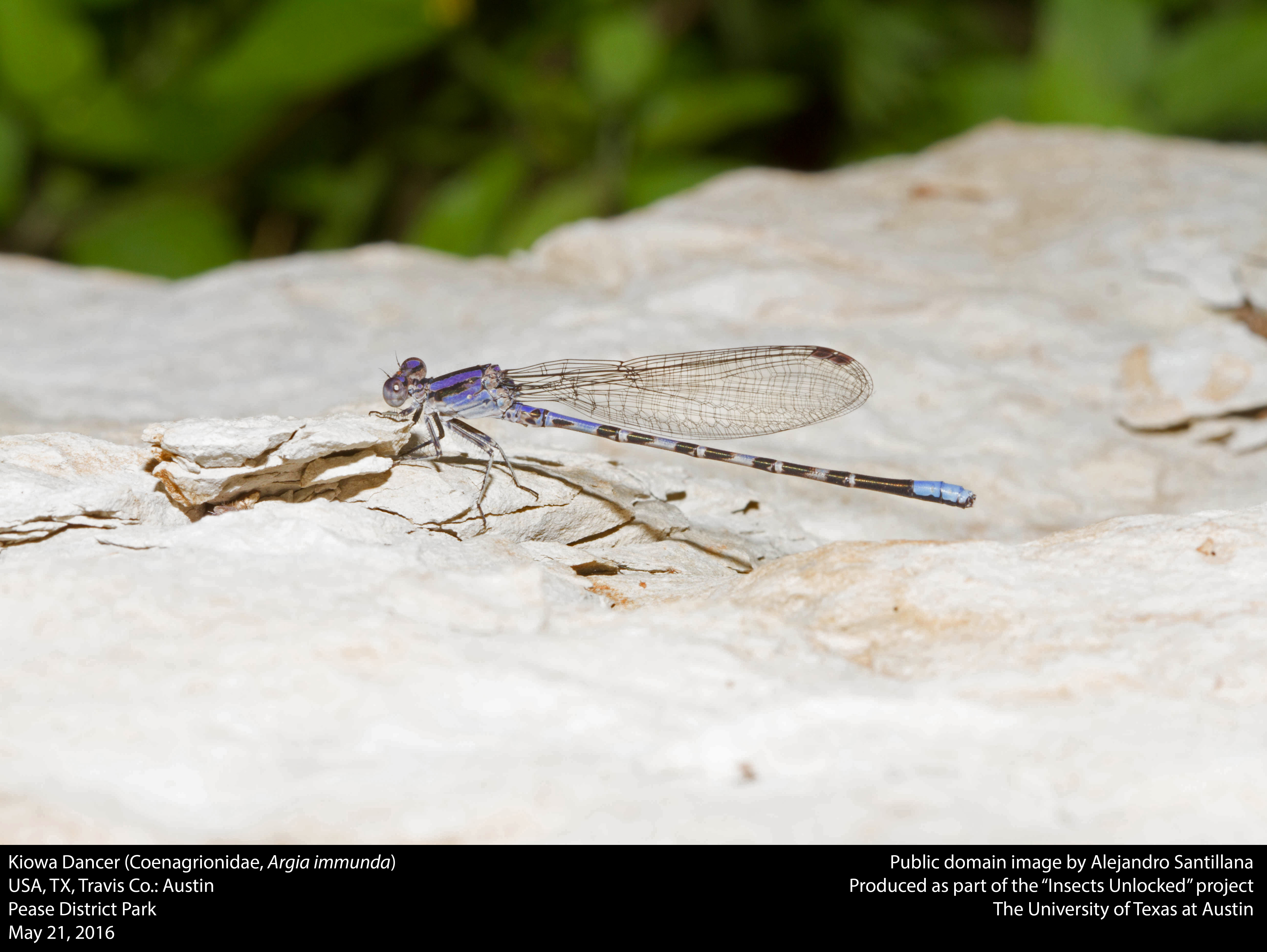 USA, TX, Travis Co.: Austin Pease District Park 21-v-2016